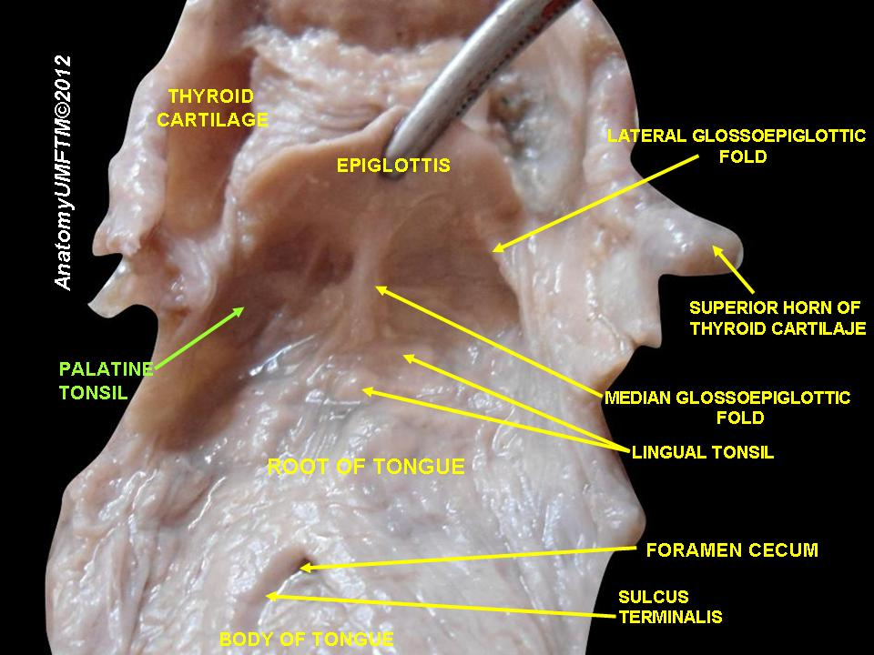 Anatomical dissections